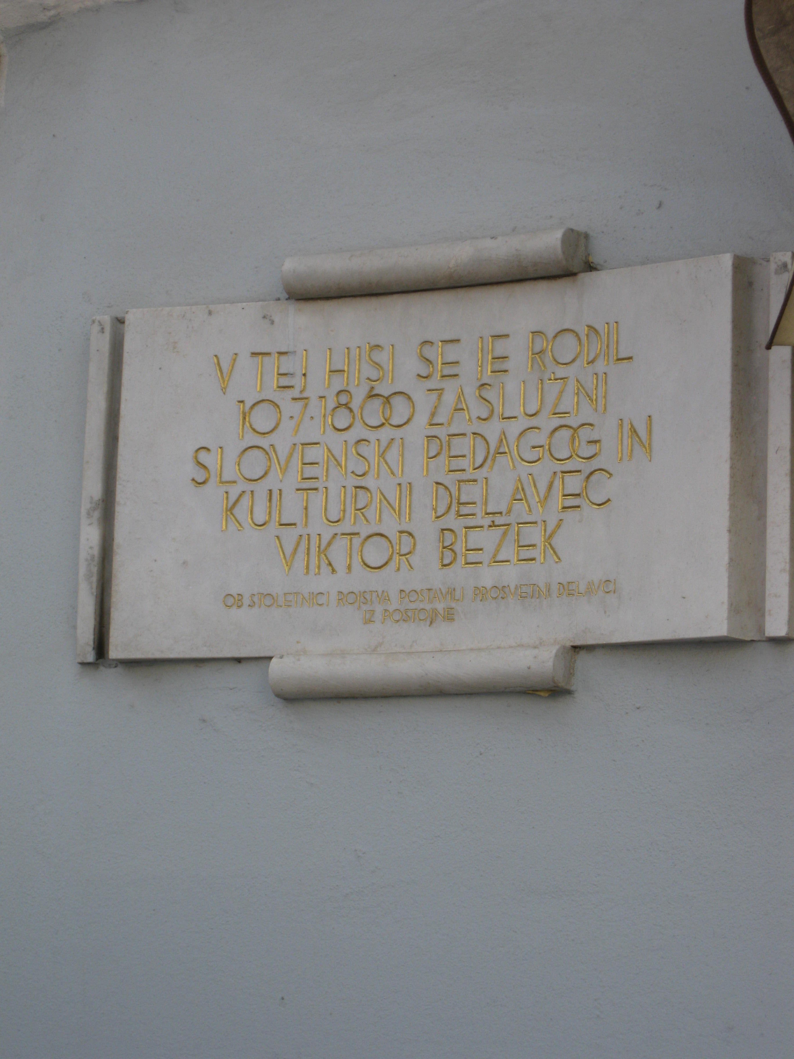 Memorial plaque in Postojna, Slovenia